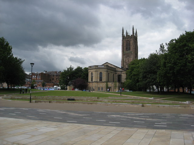 Derby Cathedral Visitors can be seen in the Cathedral Quarter, observing the peregrine falcons which have nested on the tower for the fourth year.